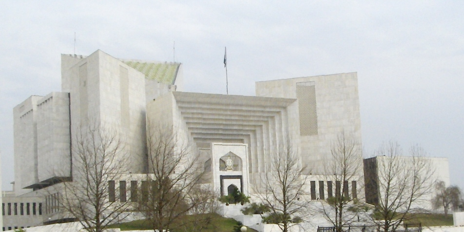 Supreme Court of Pakistan This is a photo of a monument in Pakistan identified as the ICT/9